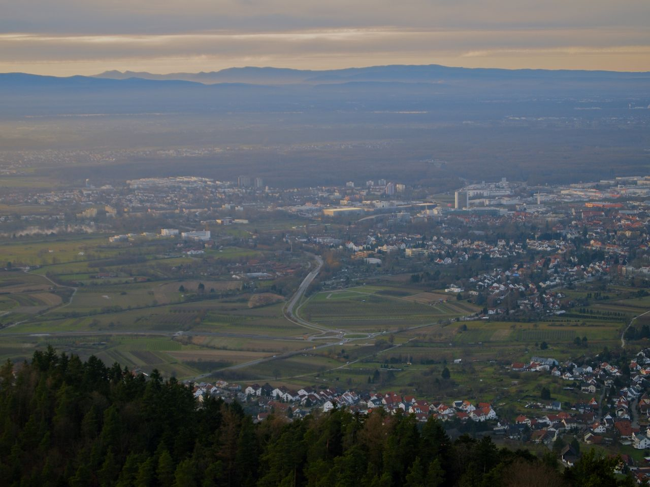 View over Offenburg from the Hohe Horn (545 m). In the distance the Donon in the central Voges can be seen.